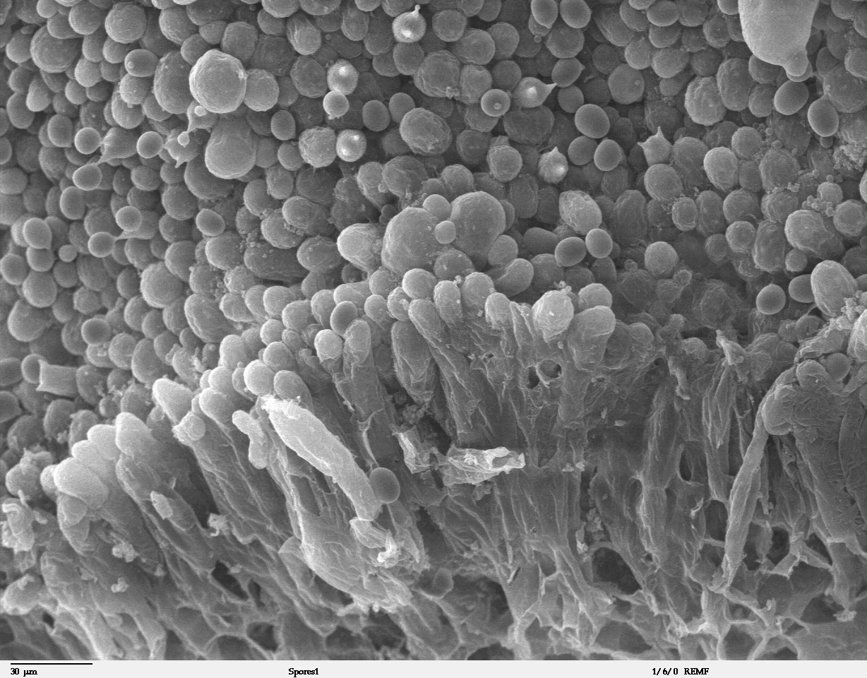 Scanning electron microscope image of mushroom spores. Note the thick stromal layer with basidiospores. Agaricus bisporus